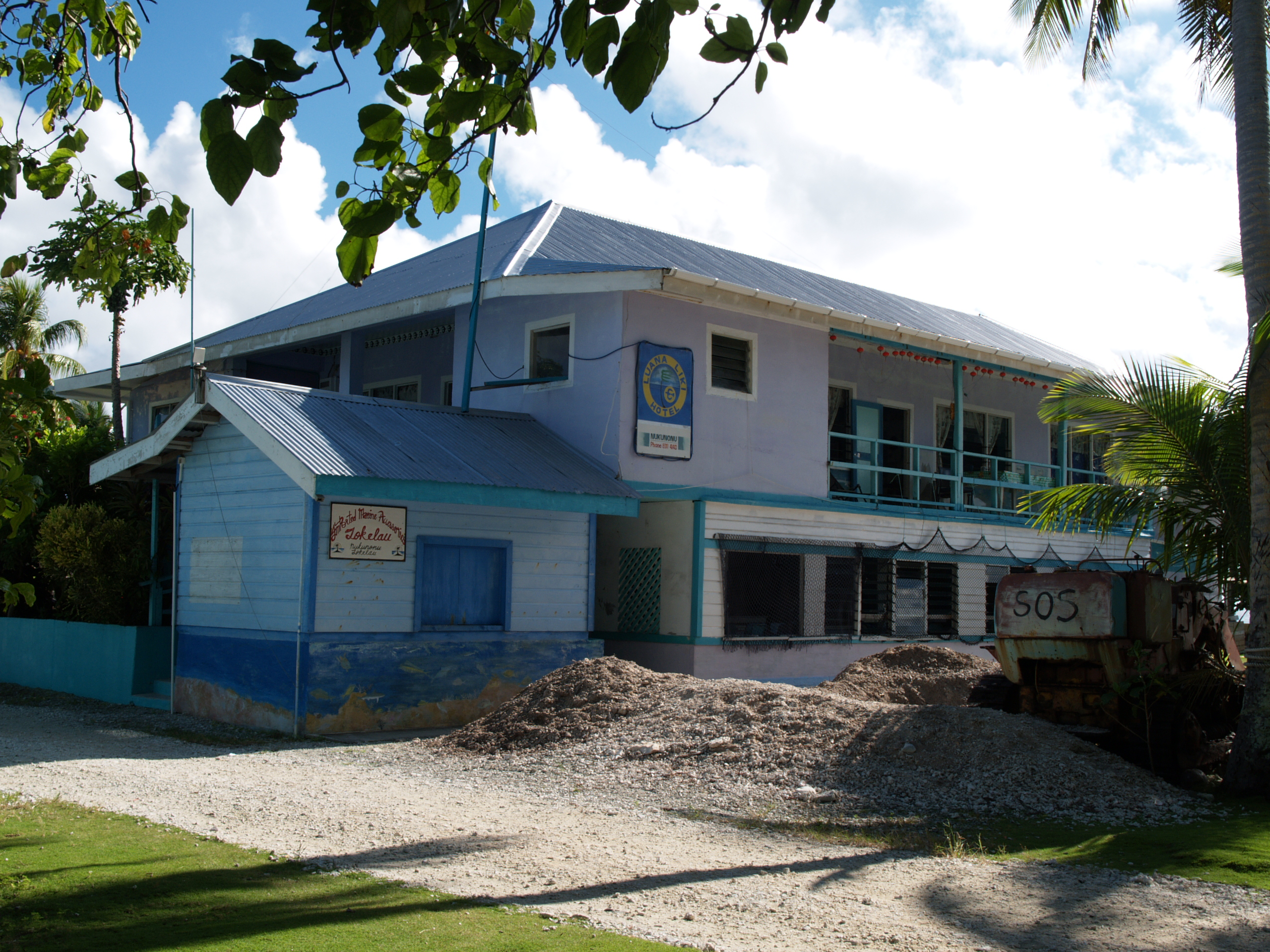 The Luana Liki hotel is the only hotel in Tokelau and is situated on Nukuono. The guest book shows that various dignitaries, including NZ Premier Helen Clarke and the NZ Governor General have stayed there.